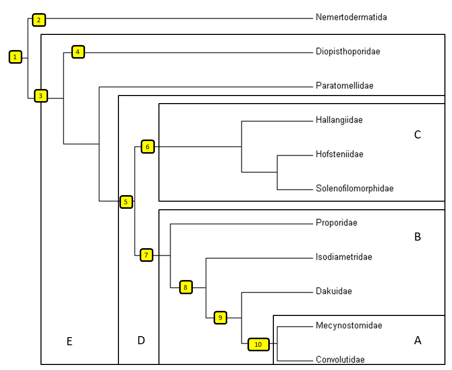 Phylogenetic relationships within the Acoela. A - Aberrantospermata, B - Crucimusculata, C - Prosopharyngida, D - Bursalia, E - Acoela. 1. Multiciliated epidermis, ciliary rootlet system, frontal organ, basiepidermal nervous system with ring-shaped brain. 2. Statocyst with two lithocytes (statoliths) and many parietal cells, sperm with cork screw-like morphology. 3. Statocyst with one lithocyte (statolith) and two parietal cells, brain sunk below body wall, lateral fibers at knee of rostral rootlet, biflagellated sperm; digestive system becomes depolarized. 4. Position of mouth at the posterior end. 5. Specialized parenchymal tissue for reception, storage, and digestion of sperm (seminal bursa). 6. Subterminal pharynx at anterior end. 7. Ventral crossover muscles and highly branched wrapping cells. 8. Cytoplasmic microtubules of sperm partially lose contact with membrane and change position toward the center of the cell. 9. Cytoplasmic microtubules of sperm change position toward the center of the cell, stacked bursal nozzles with matrix and gland cells. 10. Central microtubules in axonemes of sperm reduced to allow movement in more than one plane.